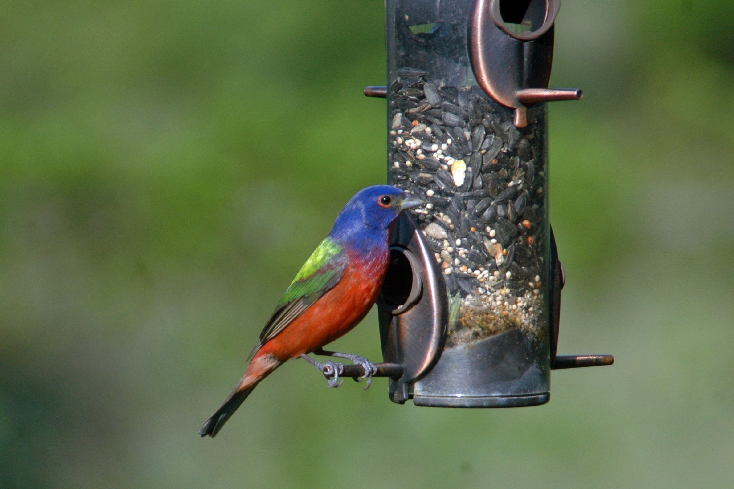 Painted Bunting Passerina ciris at a bird feeder in Oklahoma.